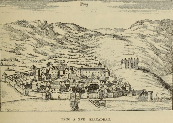 View of Zengg (17th century)